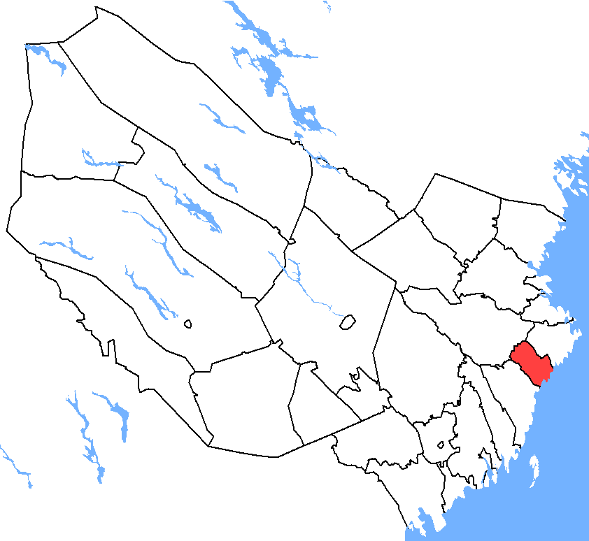 Nysätra municipality of Västerbotten County 1952.